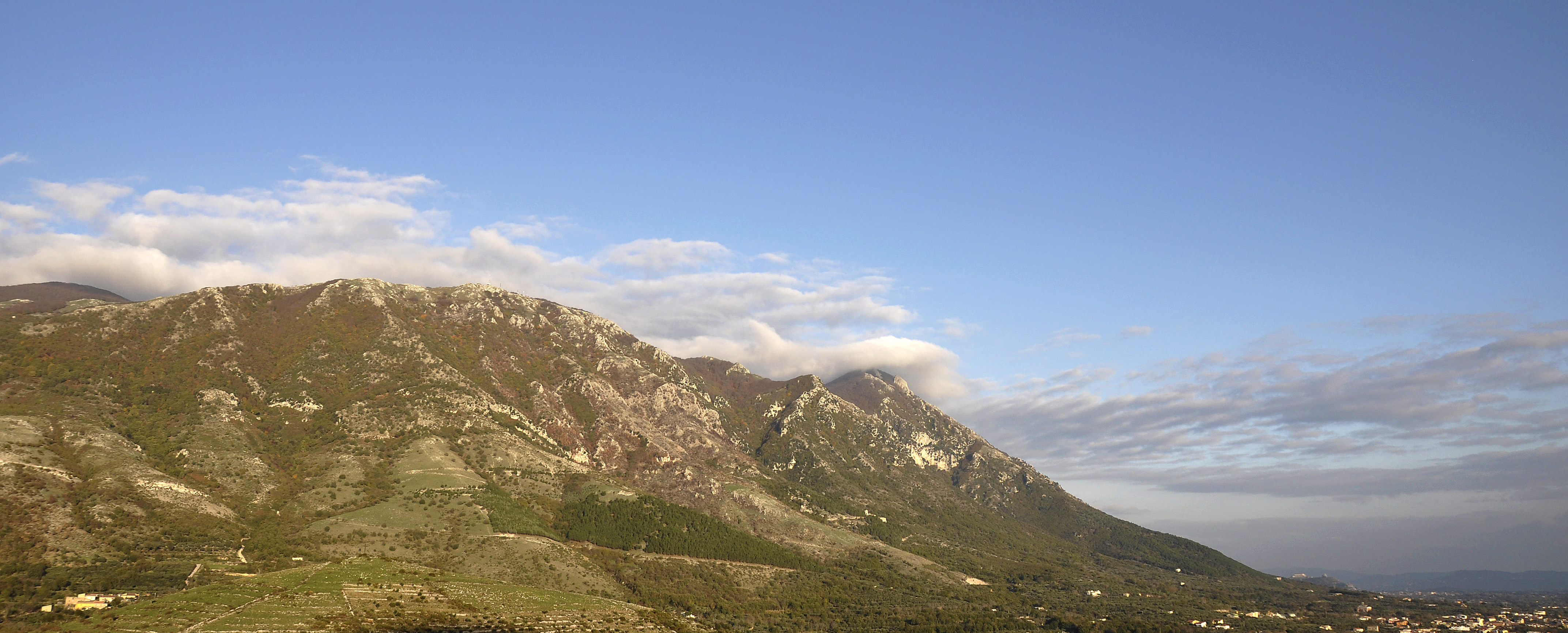 A view of Mount Taburnus. At the lower right of the picture is the town of Bucciano.